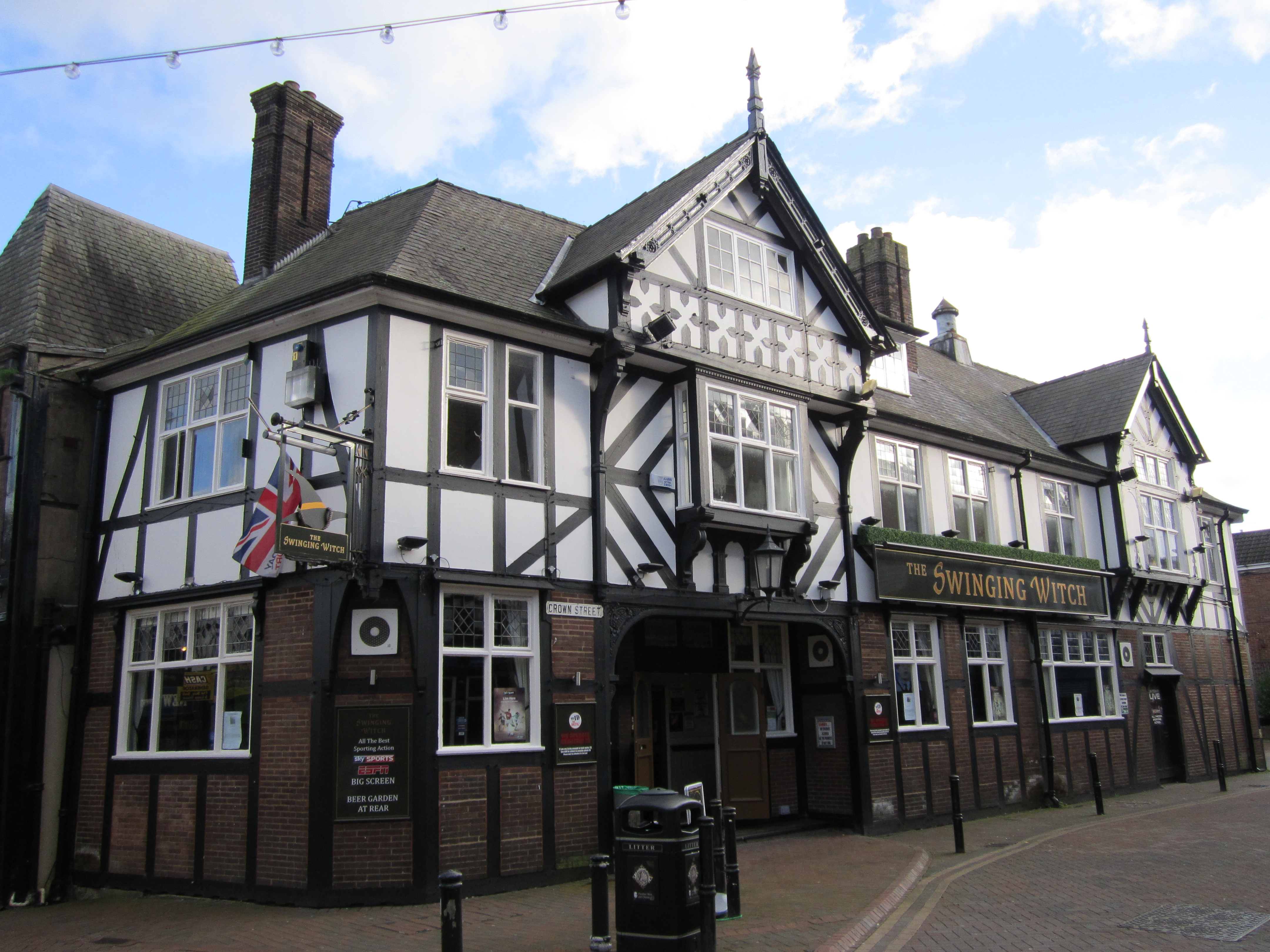 The Swinging Witch pub, Northwich, Cheshire, England.